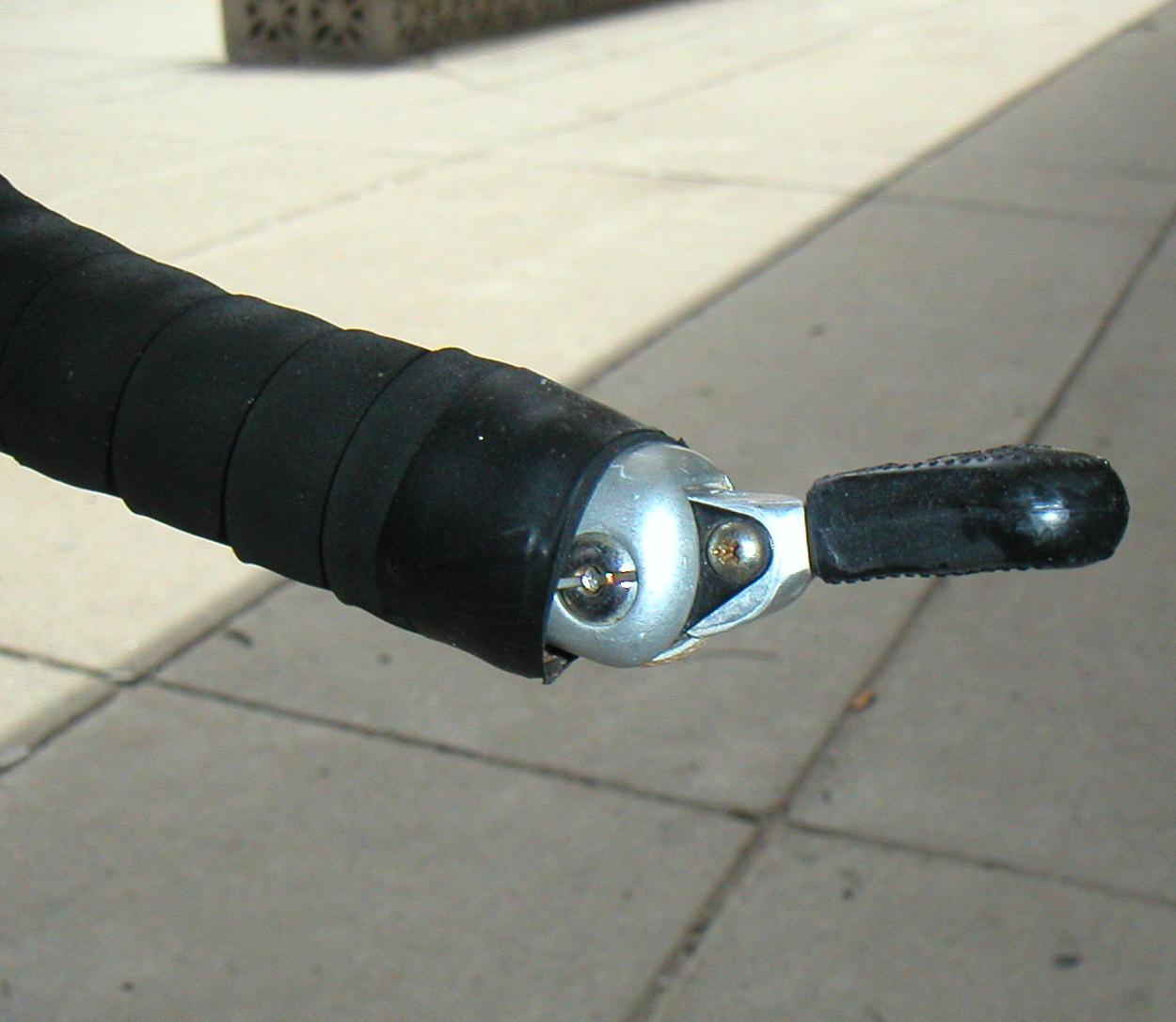 Taken by Andrew Dressel